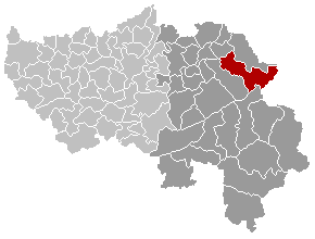 Map, municipality belgium Eupen